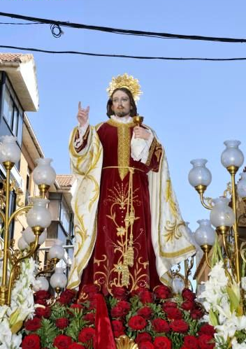 San Juan Evangelista.